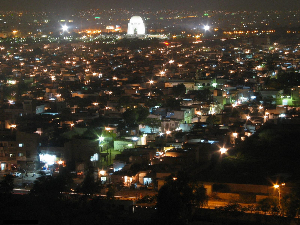 A Beautiful Night View Of Adnan Asim's Karachi City. Also Mazar-e-Quaid— The Mausoleum Is Viewable In The Picture.